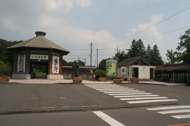 Ichihana Station, Ichikai, Tochigi, Japan